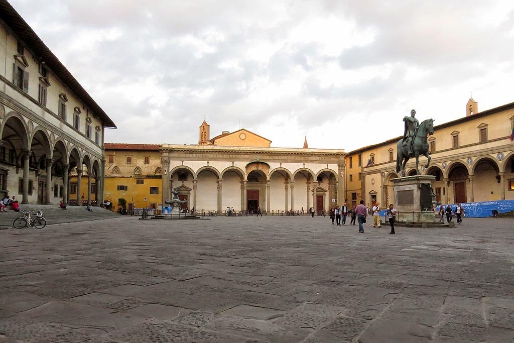 Basilica della Santissima Annunziata (Basilica of the Most Holy Annunciation), Piazza Santissima Annunziata, Florence